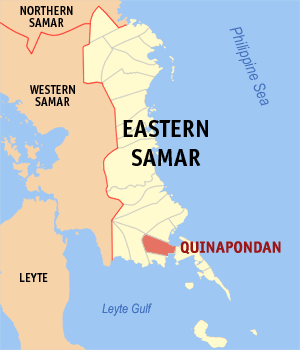 Map of Eastern Samar showing the location of Quinapondan